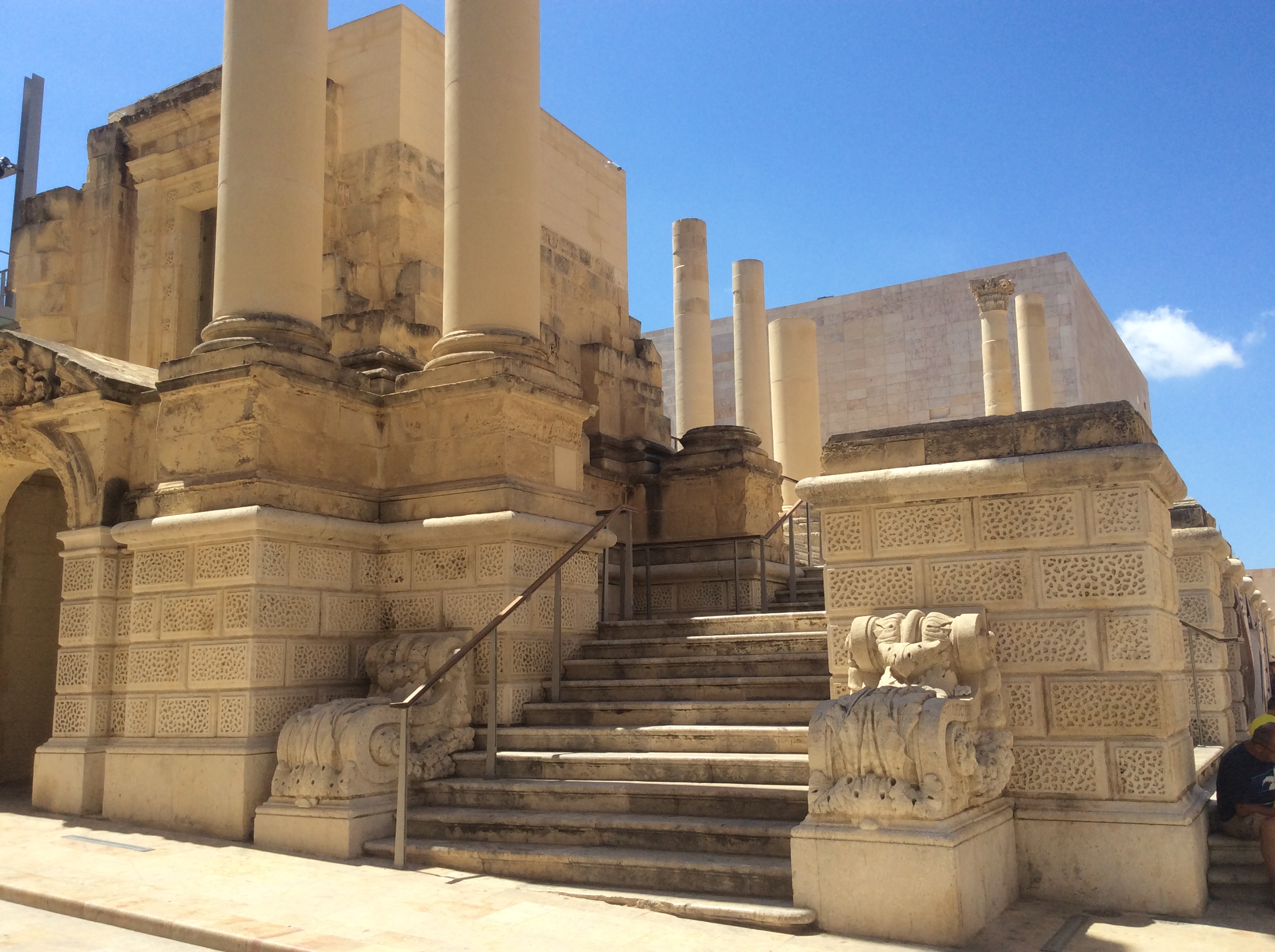 Maltese Parliament house and Pjazza Teatru Rjal